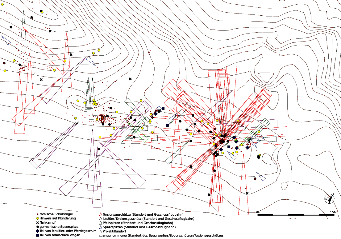 Battle at the Harzhorn: Graphic representation of locations of artefacts of combat on the ridge. Furthermore representation of presumed trajectories of Roman projectiles, arrowheads and spears.